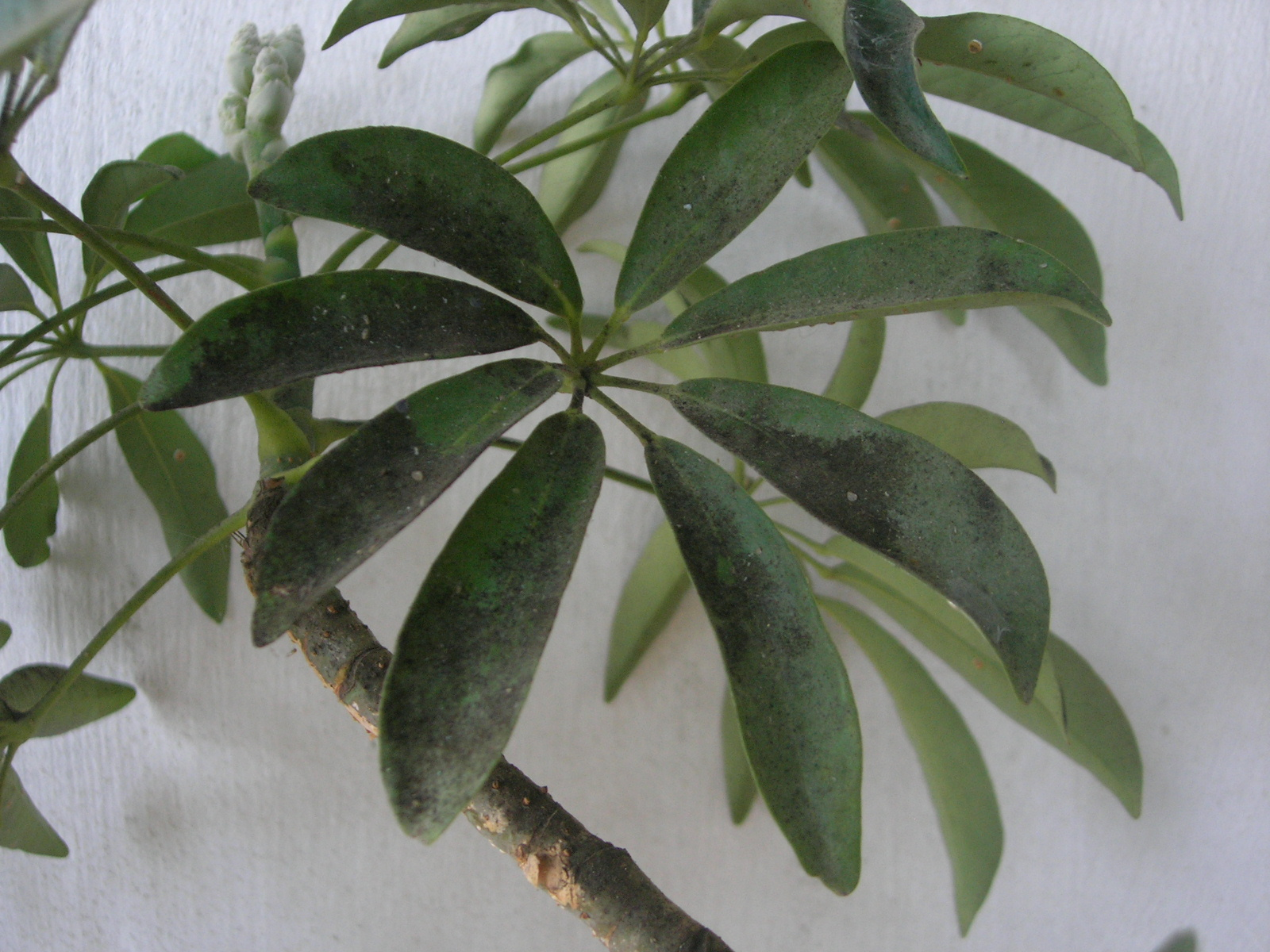 Schefflera arboricola leaves with Sooty mold